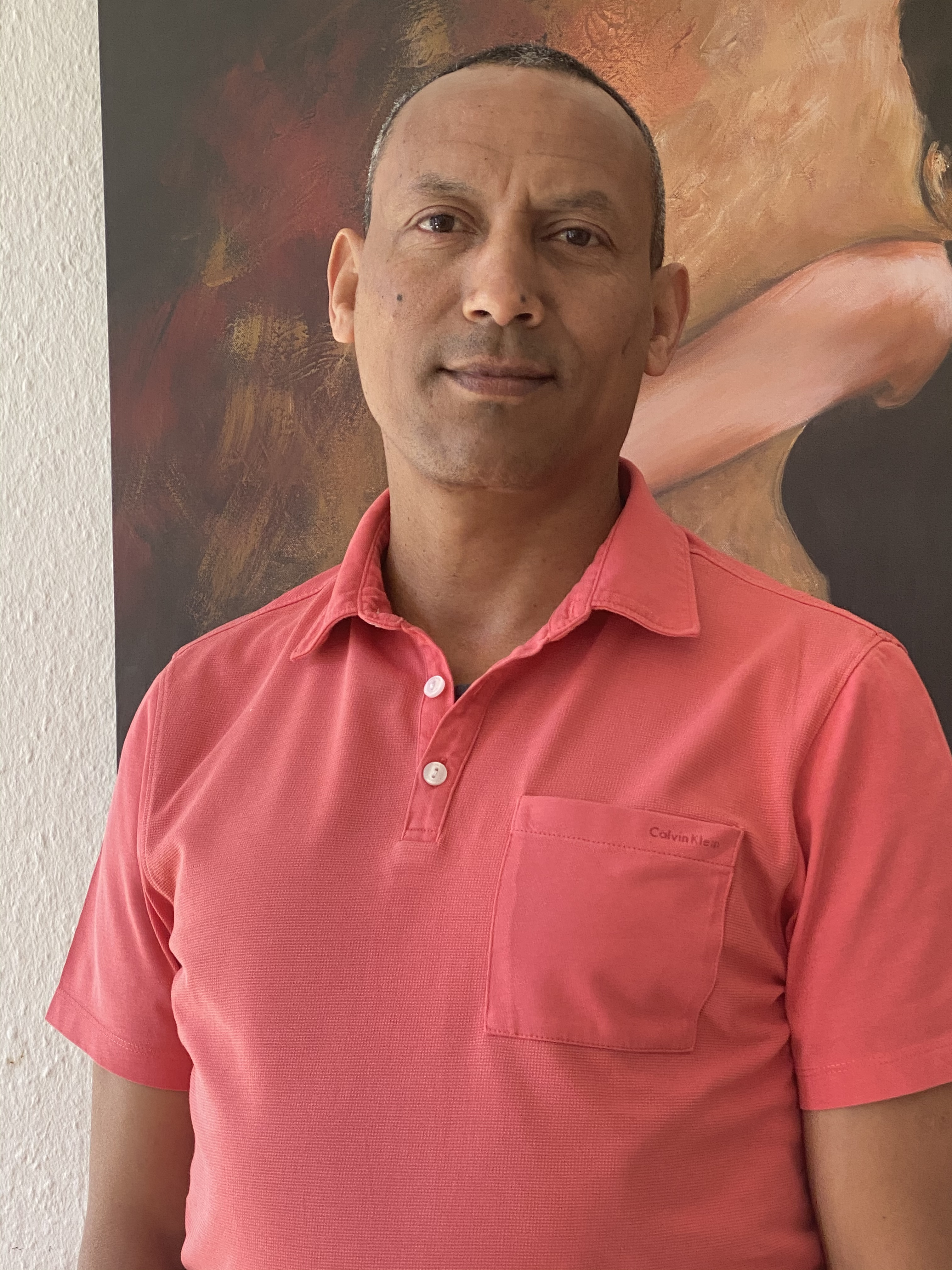 Picture of Dr. Waltenegus Dargie